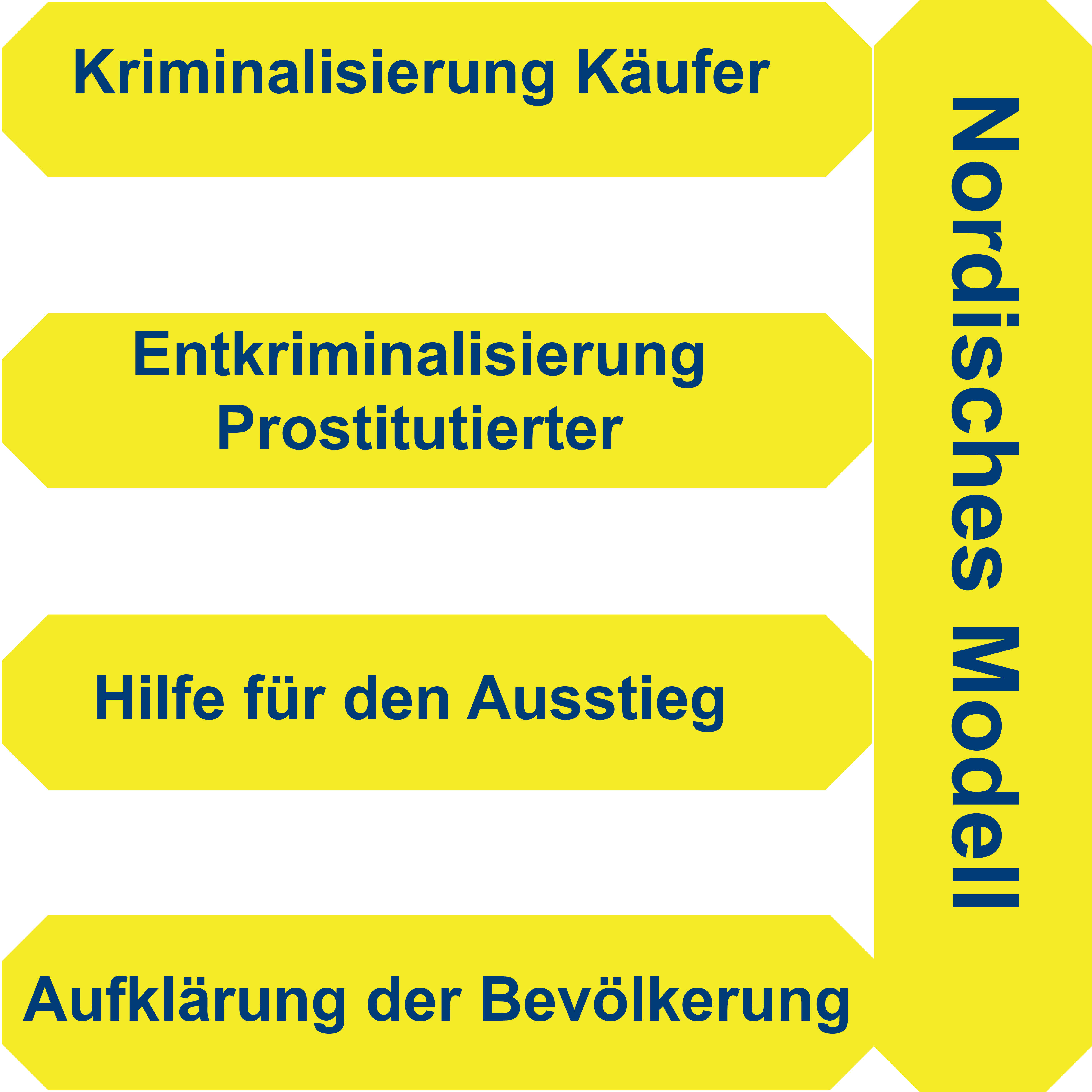 Pillars of the Nordic model in German